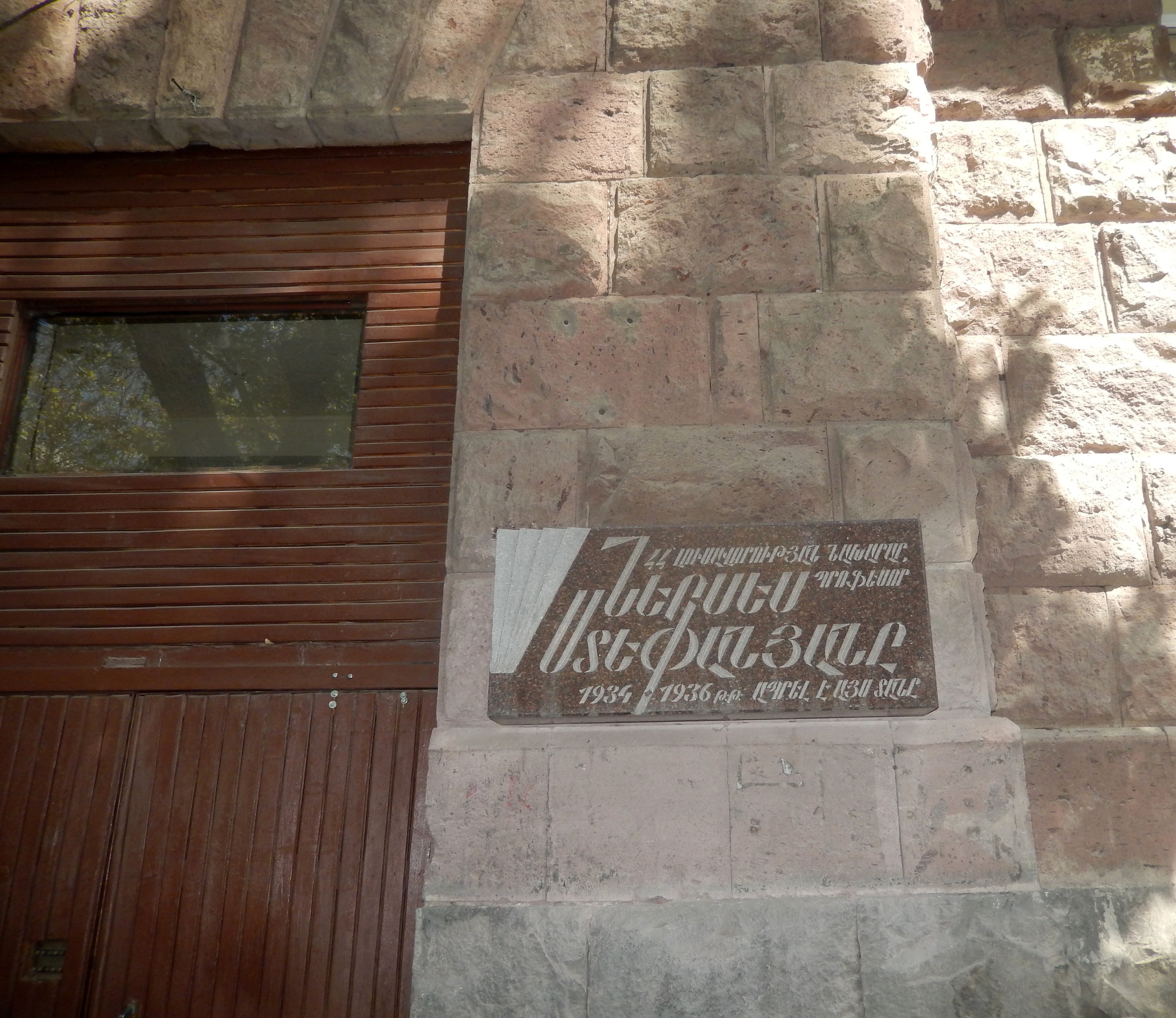 Plaques in Yerevan